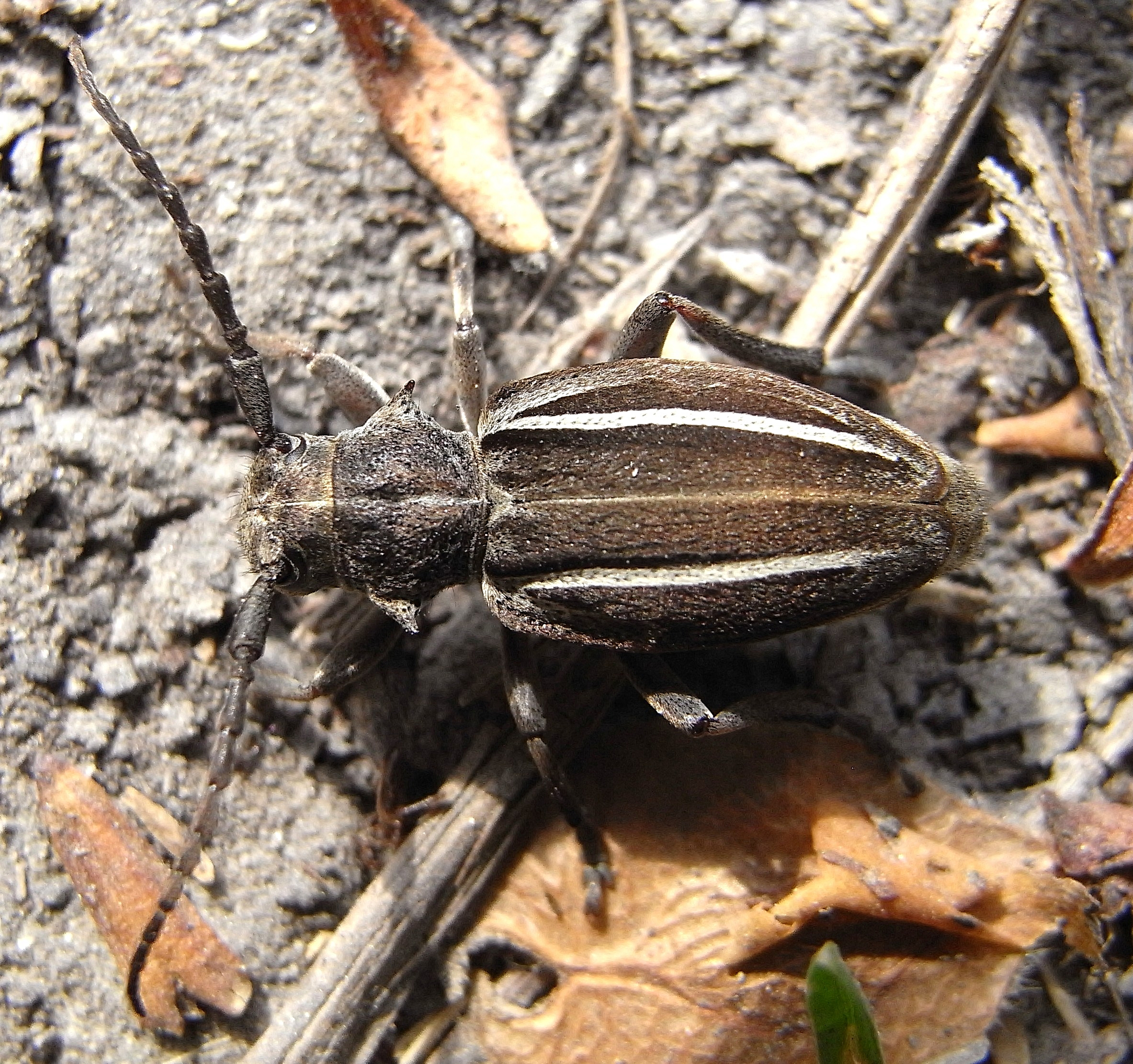 Neodorcadion bilineatum from South-Hungary at 2010-05-10 Ricoh R8